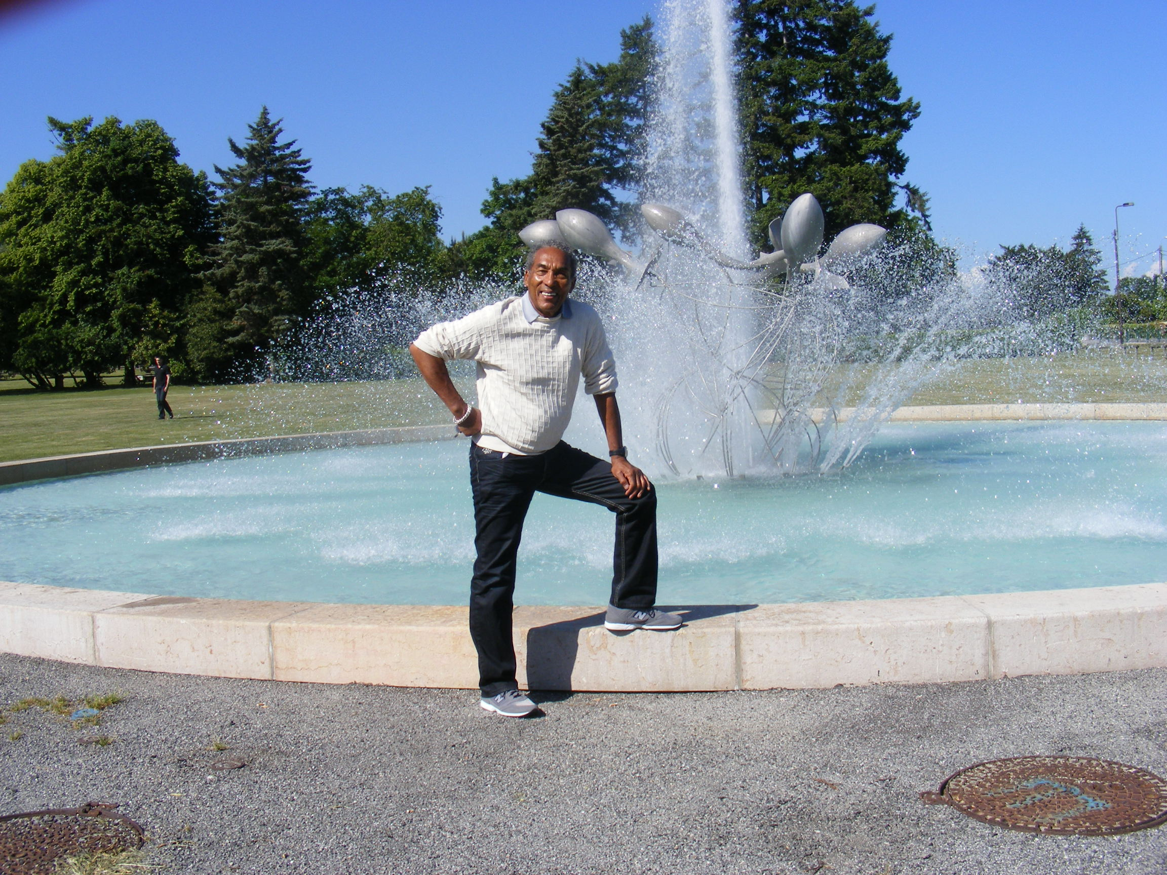 this is my photo taken from my camera in Geneve Switzerland